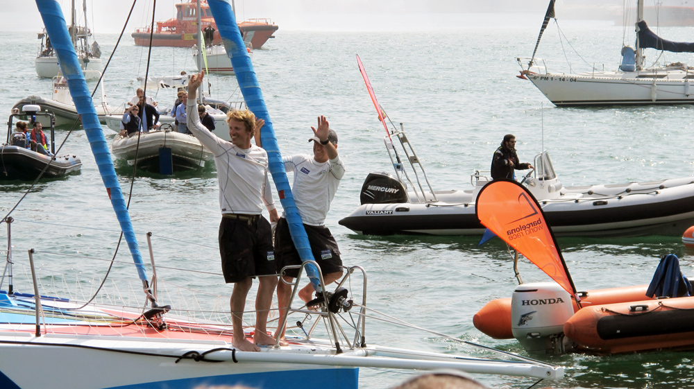 Jean-Pierre Dick and Loïck Peyron, winners of the Barcelona World Race 2010-2011.